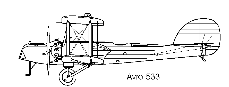 Avro 533 Mk. I, British Aeroplane Drawing left side Christoph Grimlowski, Radevormwald/Germany